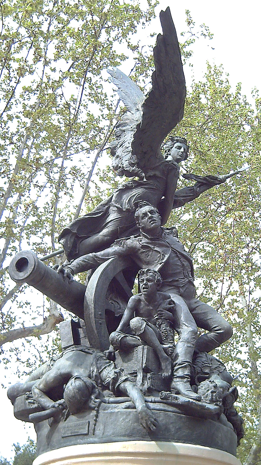 Heroes of The Second of May by Aniceto Marinas.